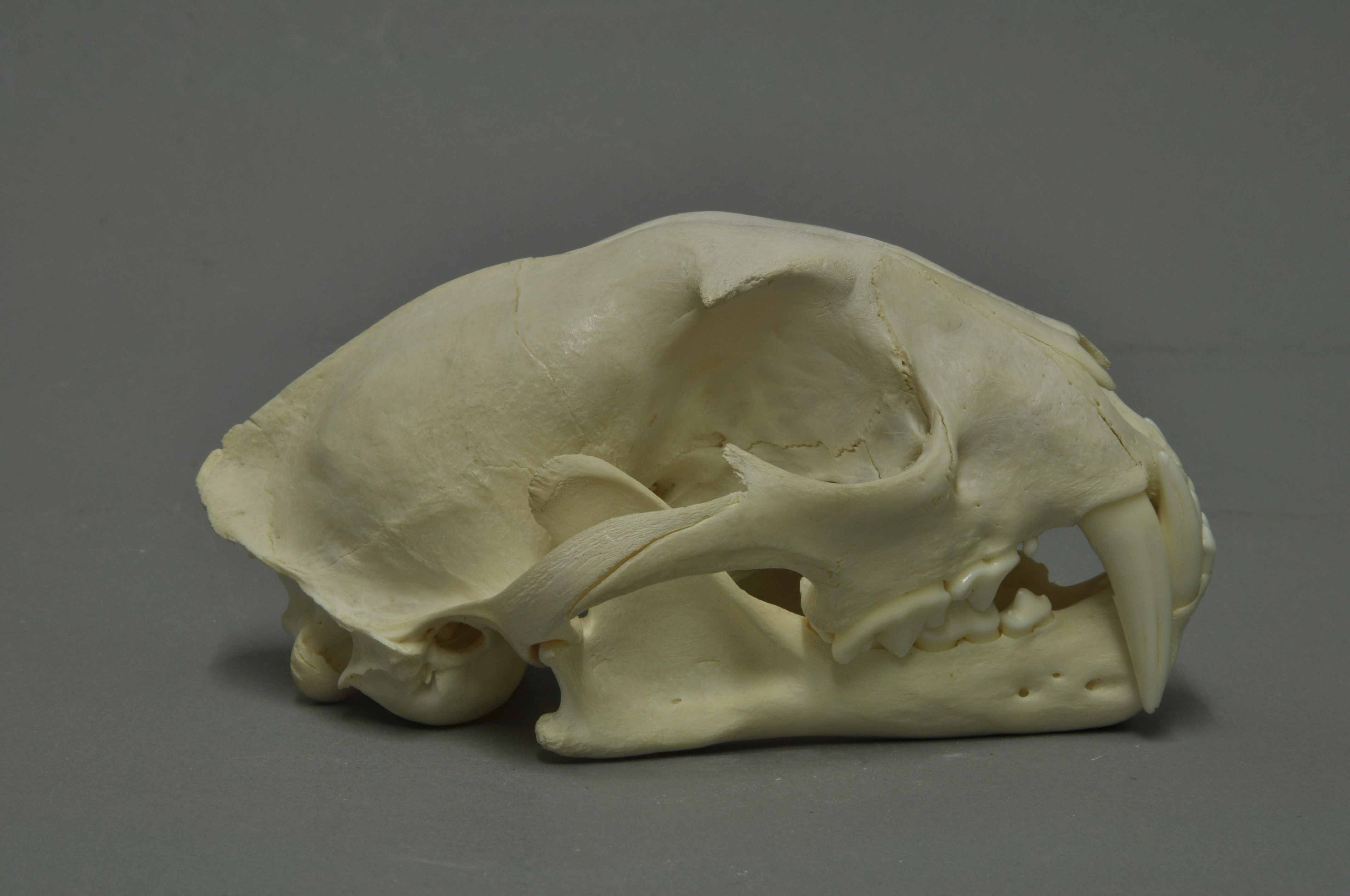 clouded leopard , skull, Coll. Museum Wiesbaden